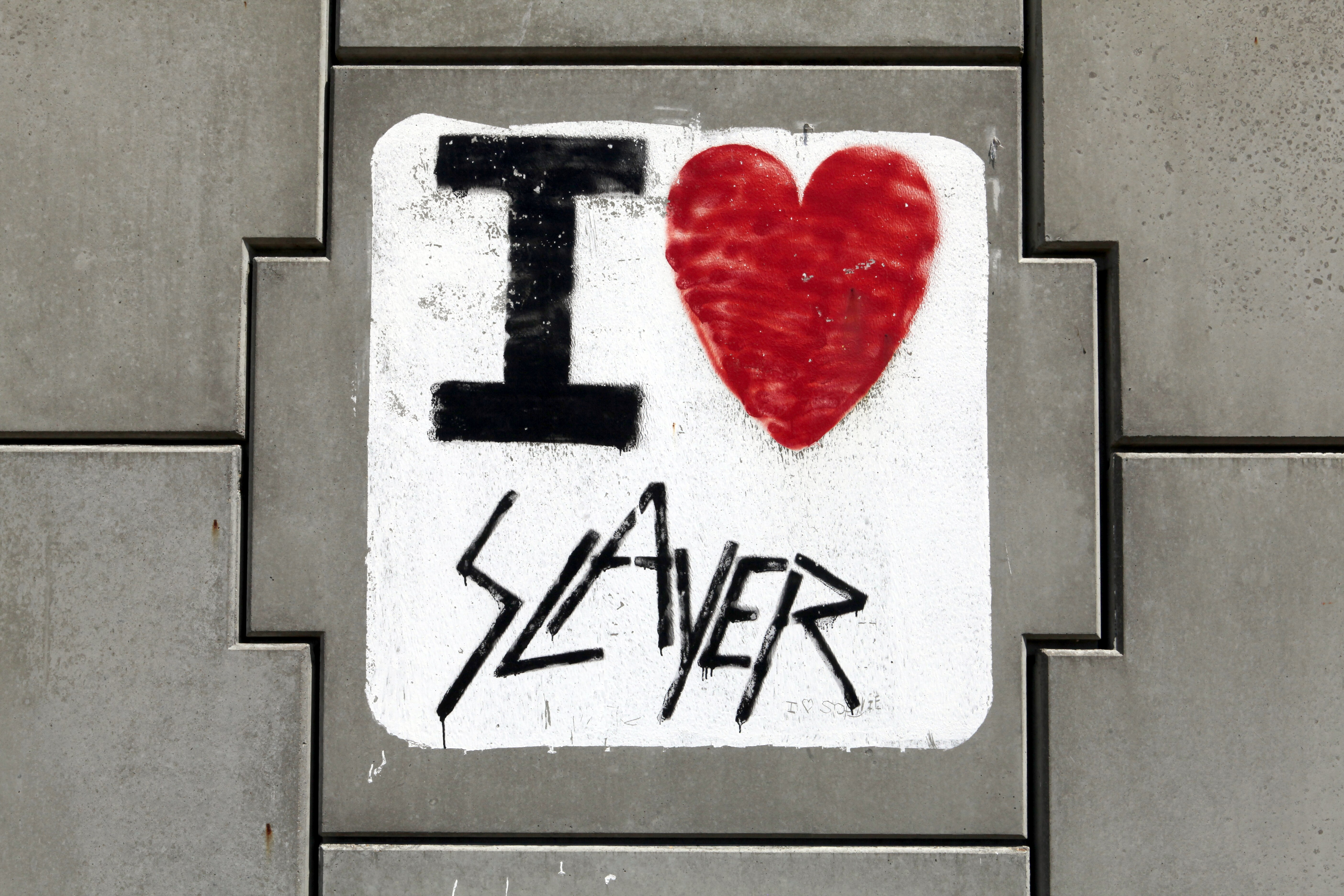 Flickr data on 2011-08-15: Tags: graffiti License: CC BY 2.0 User: Joost J. Bakker IJmuiden Joost J. Bakker